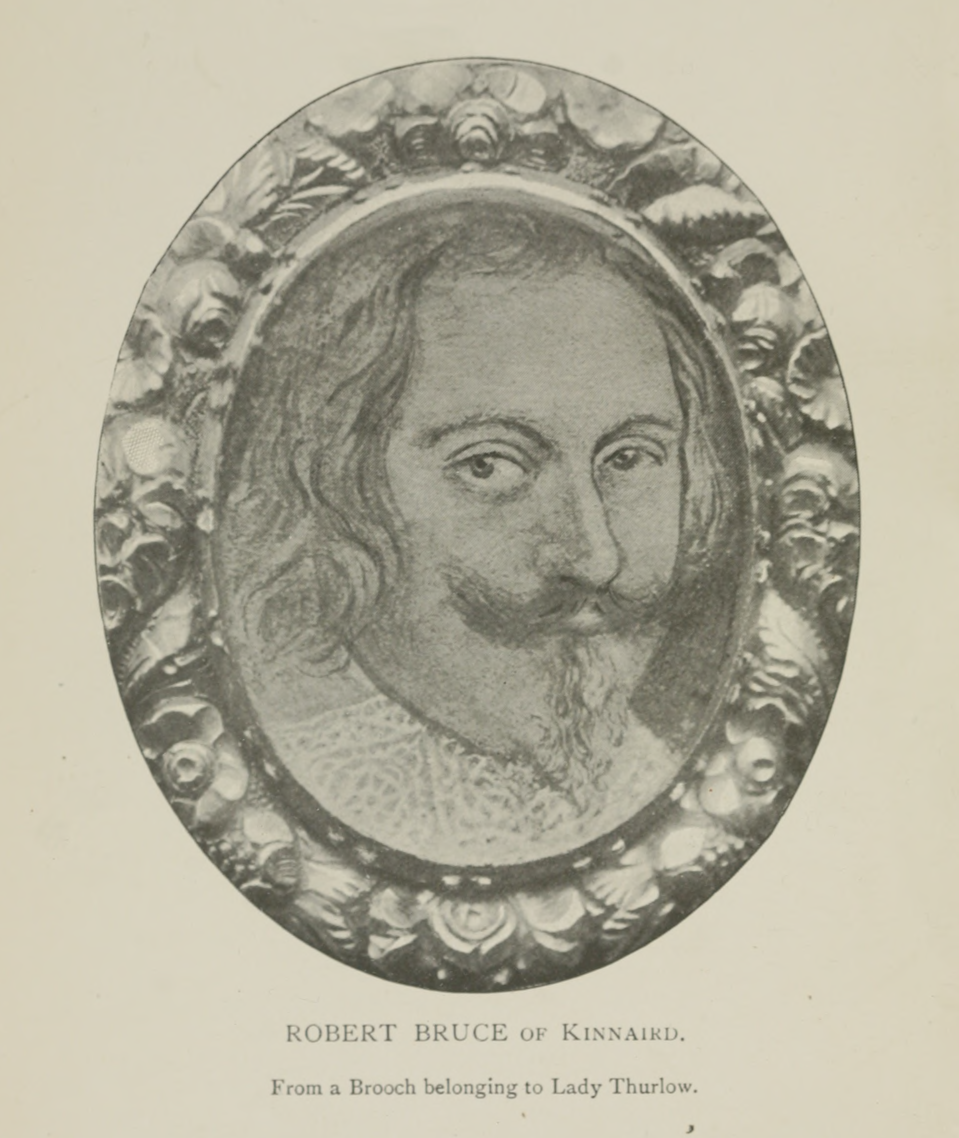 Robert Bruce of Kinnaird from a brooch belonging to Lady Thurlow